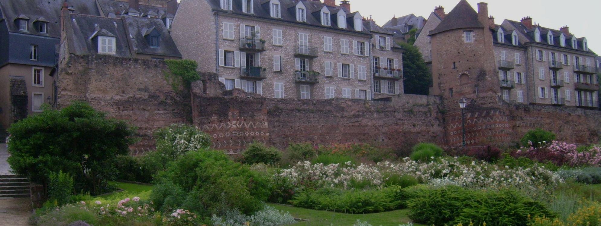 Ancient Roman defensive walls of Le Mans and Gourdaine parc-France